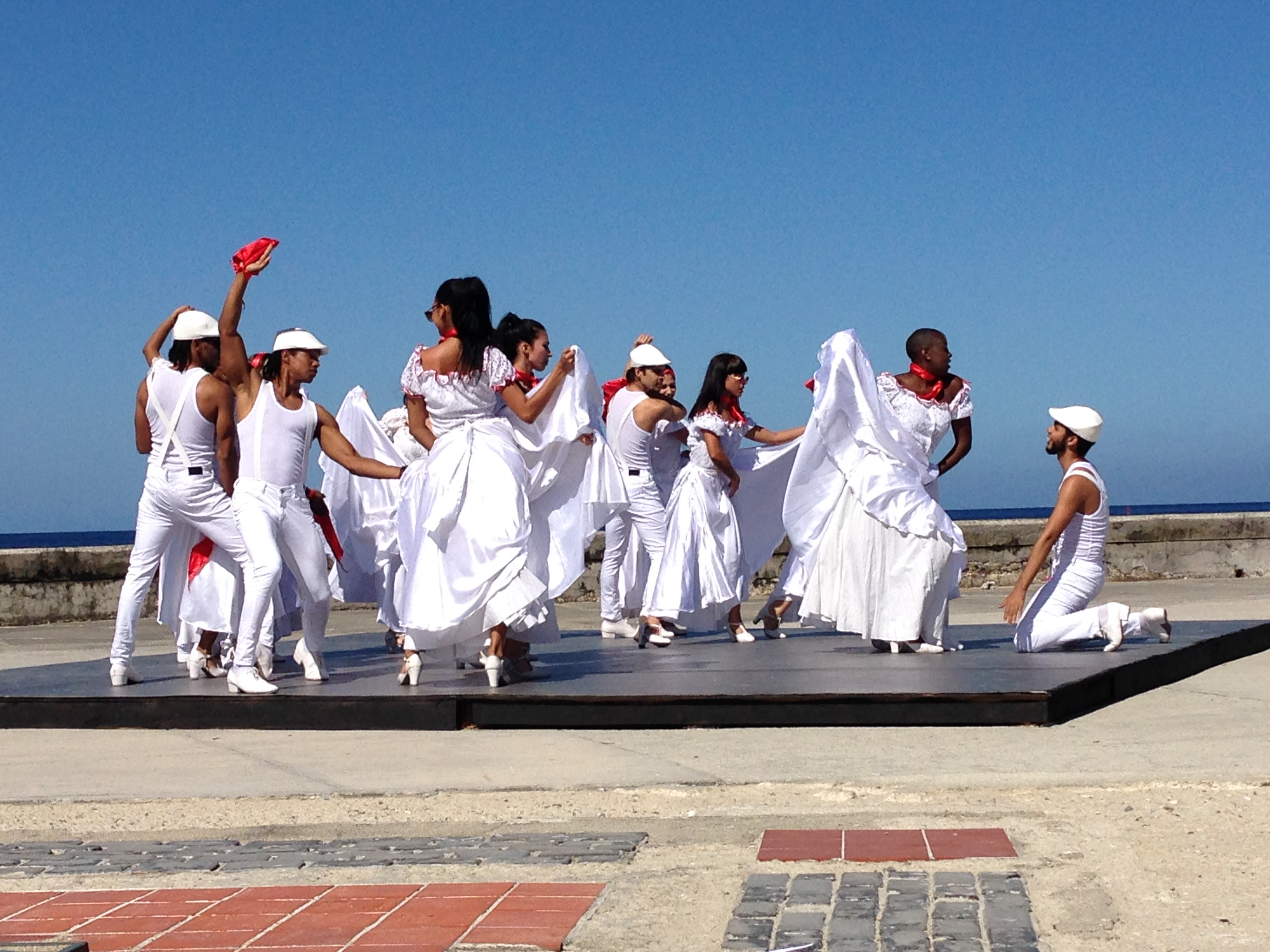 Dancers in Havana, Cuba